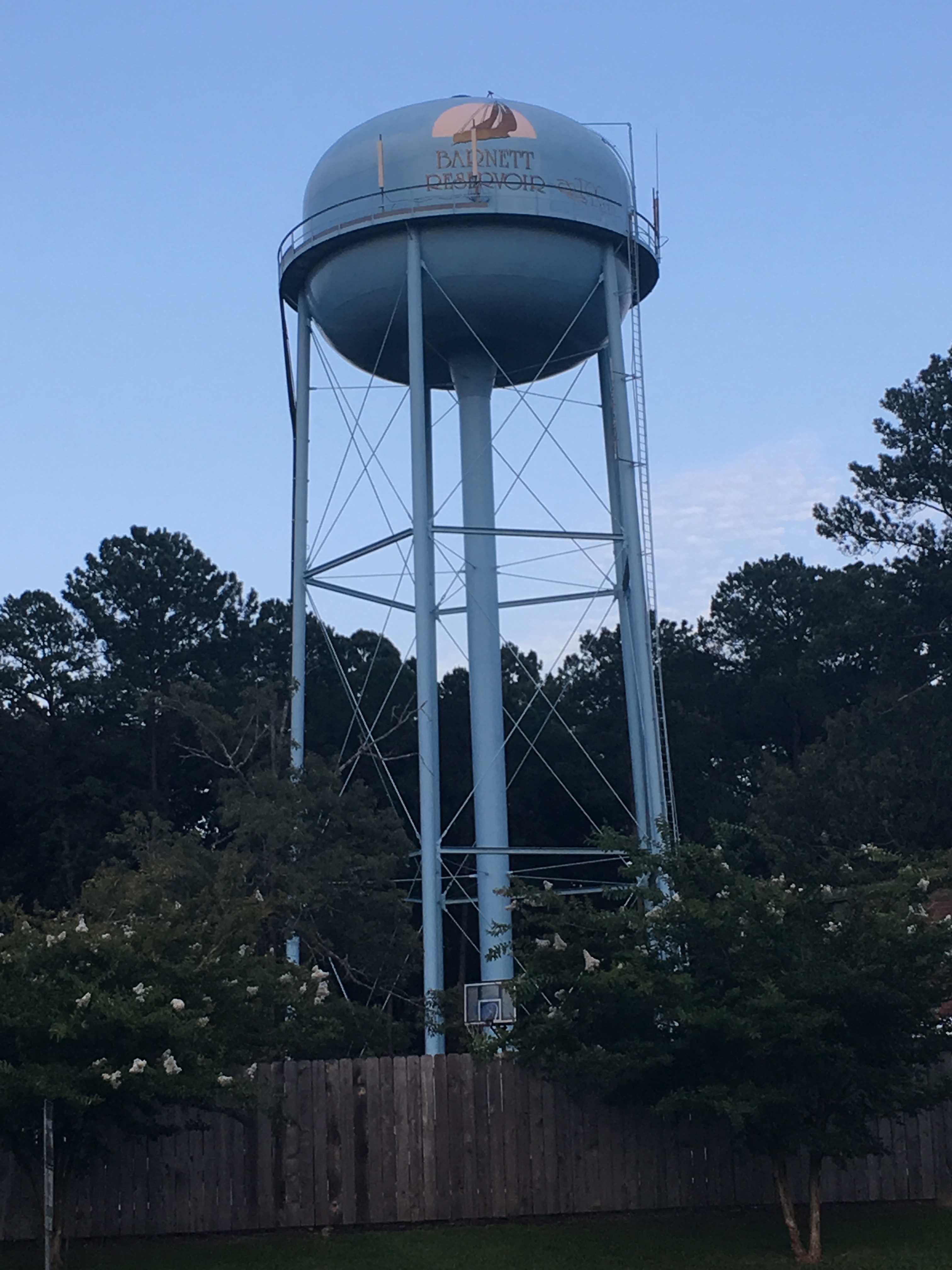 Ross Barnett Reservior water tower